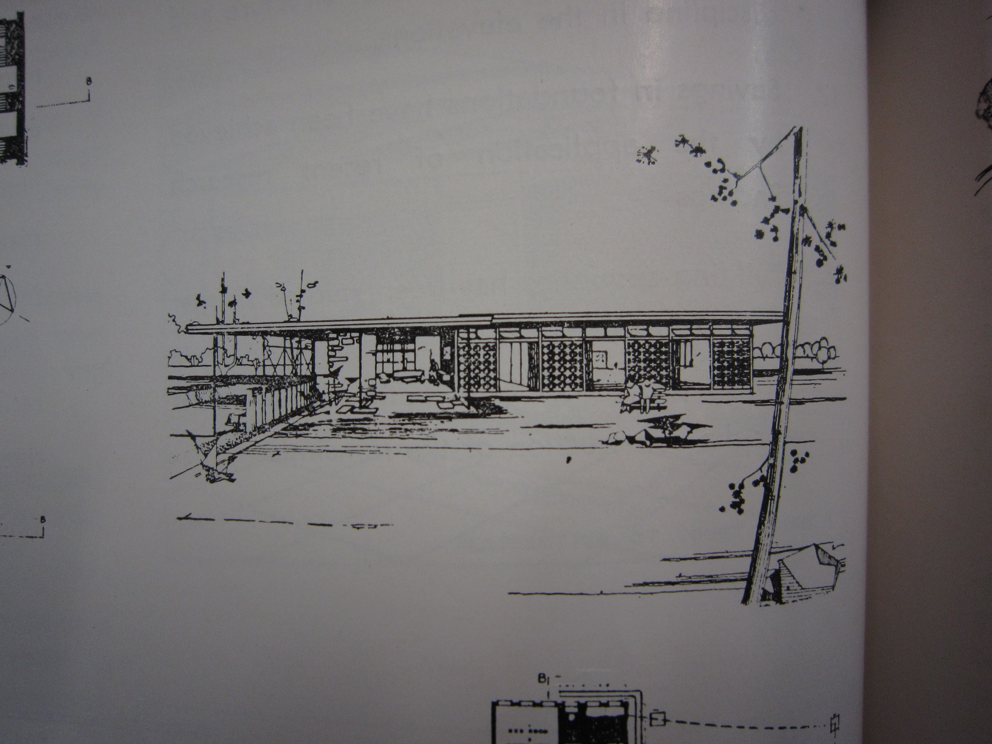 Front View of the Bungalow